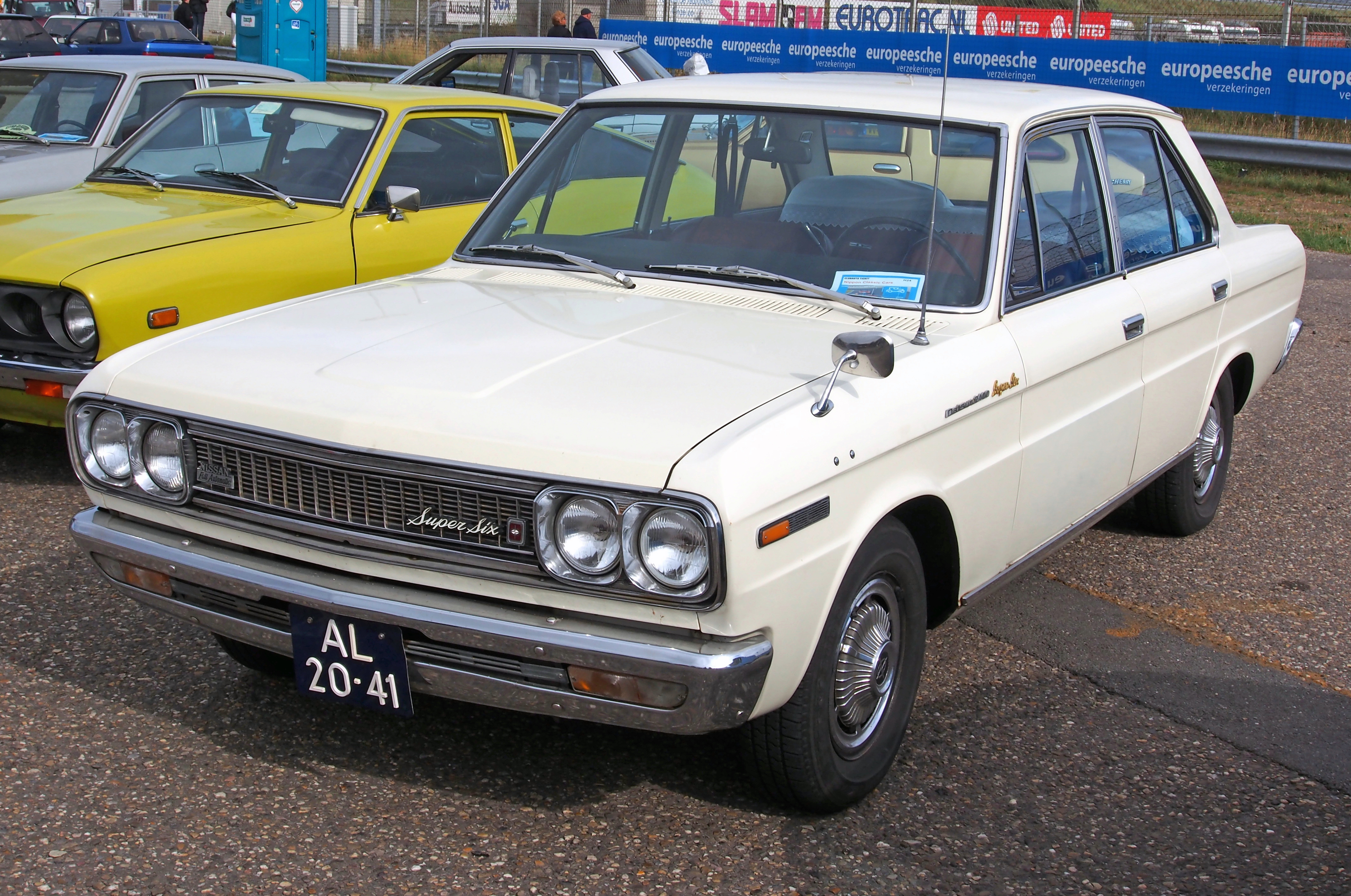 Photographed at the Nationaal Oldtimer Festival Zandvoort 2012. 1971 Datsun 2400 Super Six